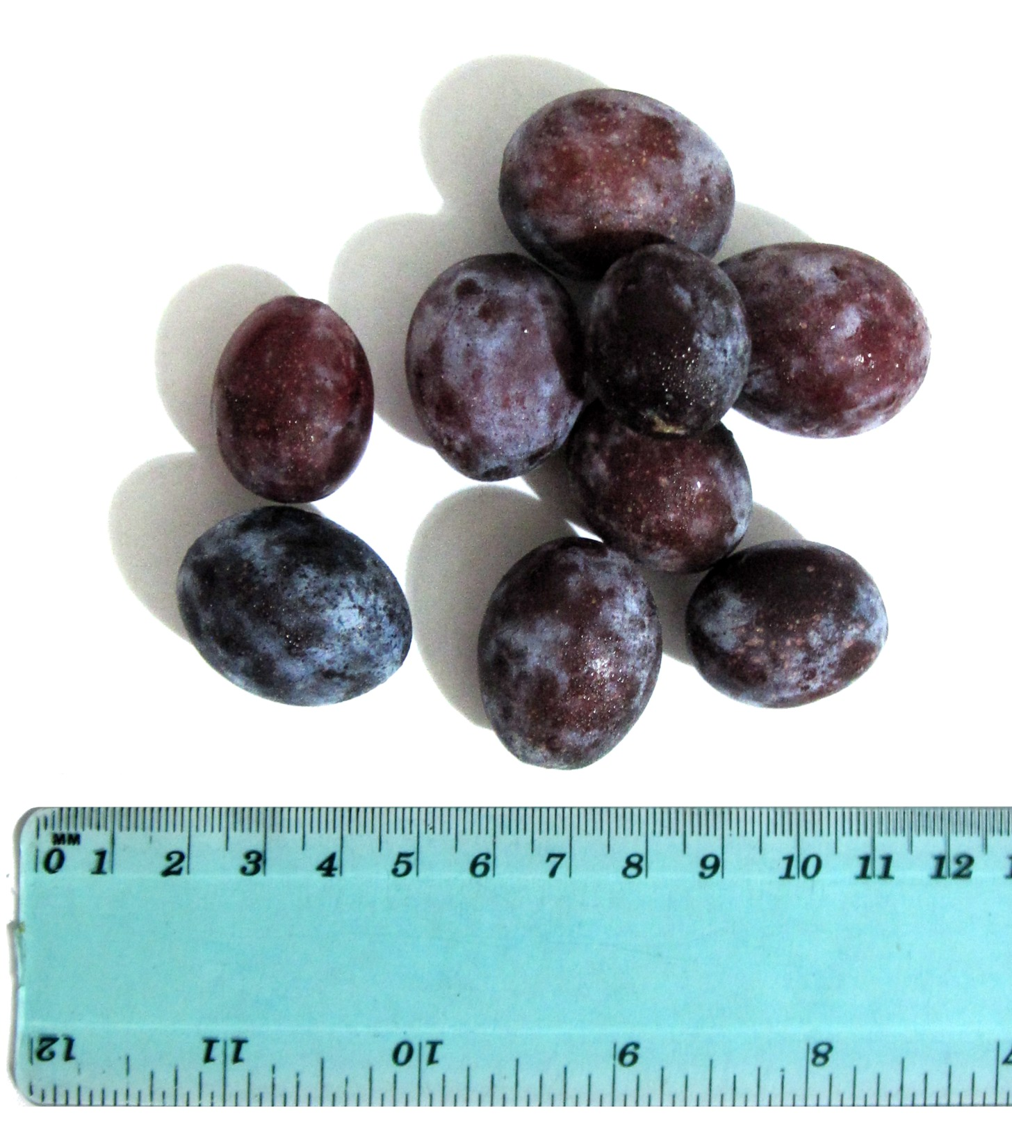 Prunus domestica, cultivar ramasin (from Piedmont)